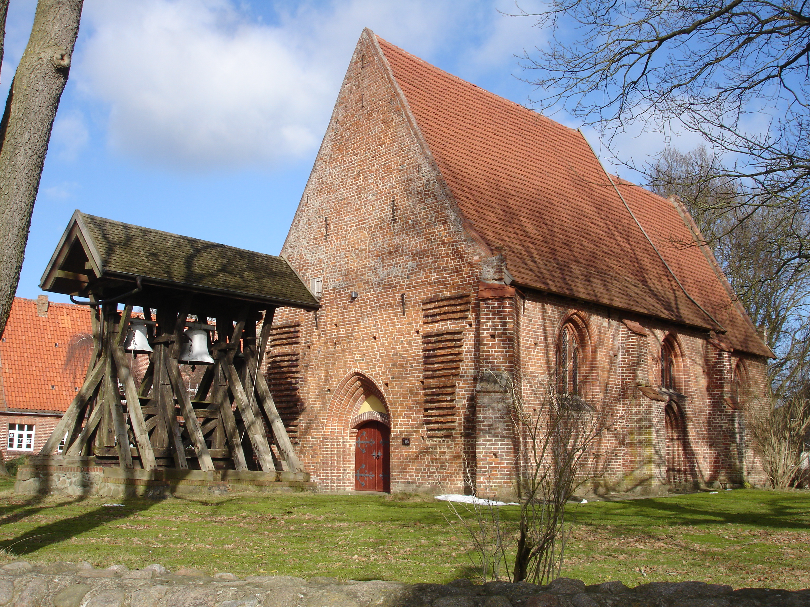 Church in Alt Meteln, district Nordwestmecklenburg, Mecklenburg-Vorpommern, Germany